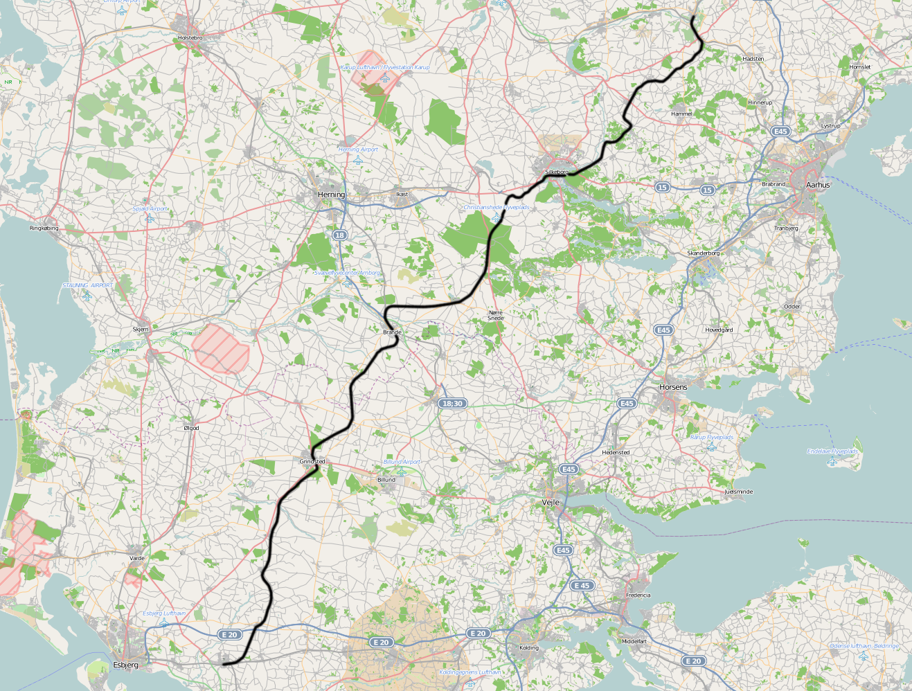 Railway line Langå - Bramming